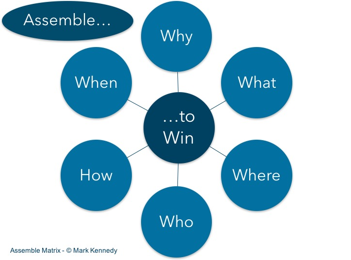 Assemble Matrix of Shapeholders. Created by Shapeholders author Mark Kennedy.